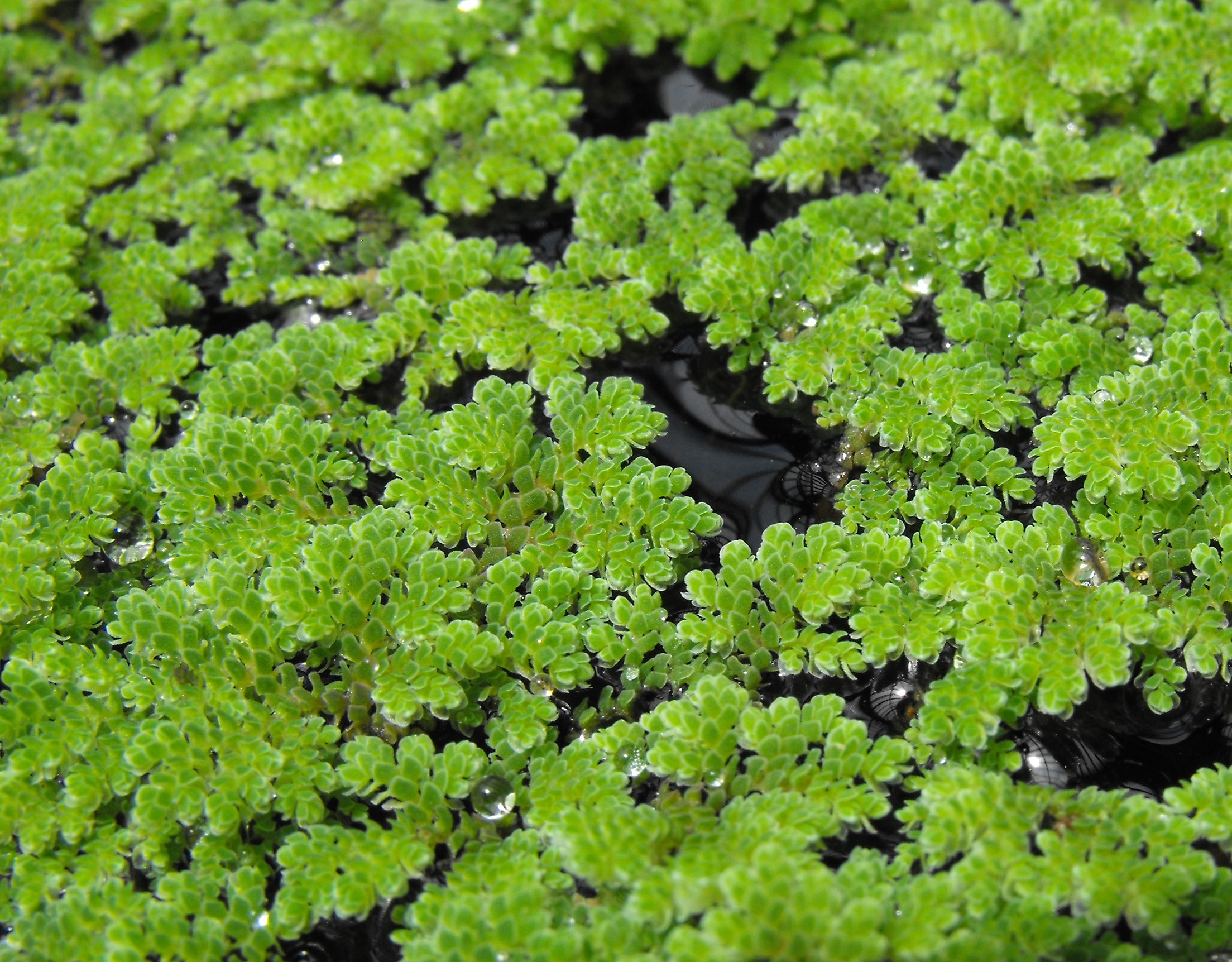 Azolla filiculoides in the Botanical Building at Balboa Park in San Diego, California, USA. Identified by sign.